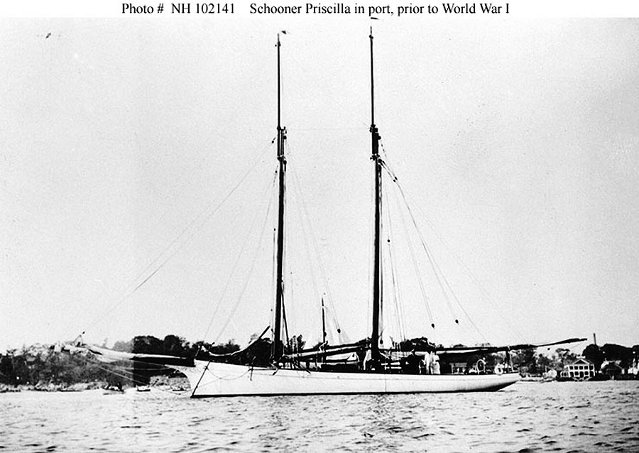 Schooner Priscilla sometime prior to June 1917, acquired by the United States Navy for service as patrol vessel USS Priscilla (SP-44) in 1917 but never commissioned